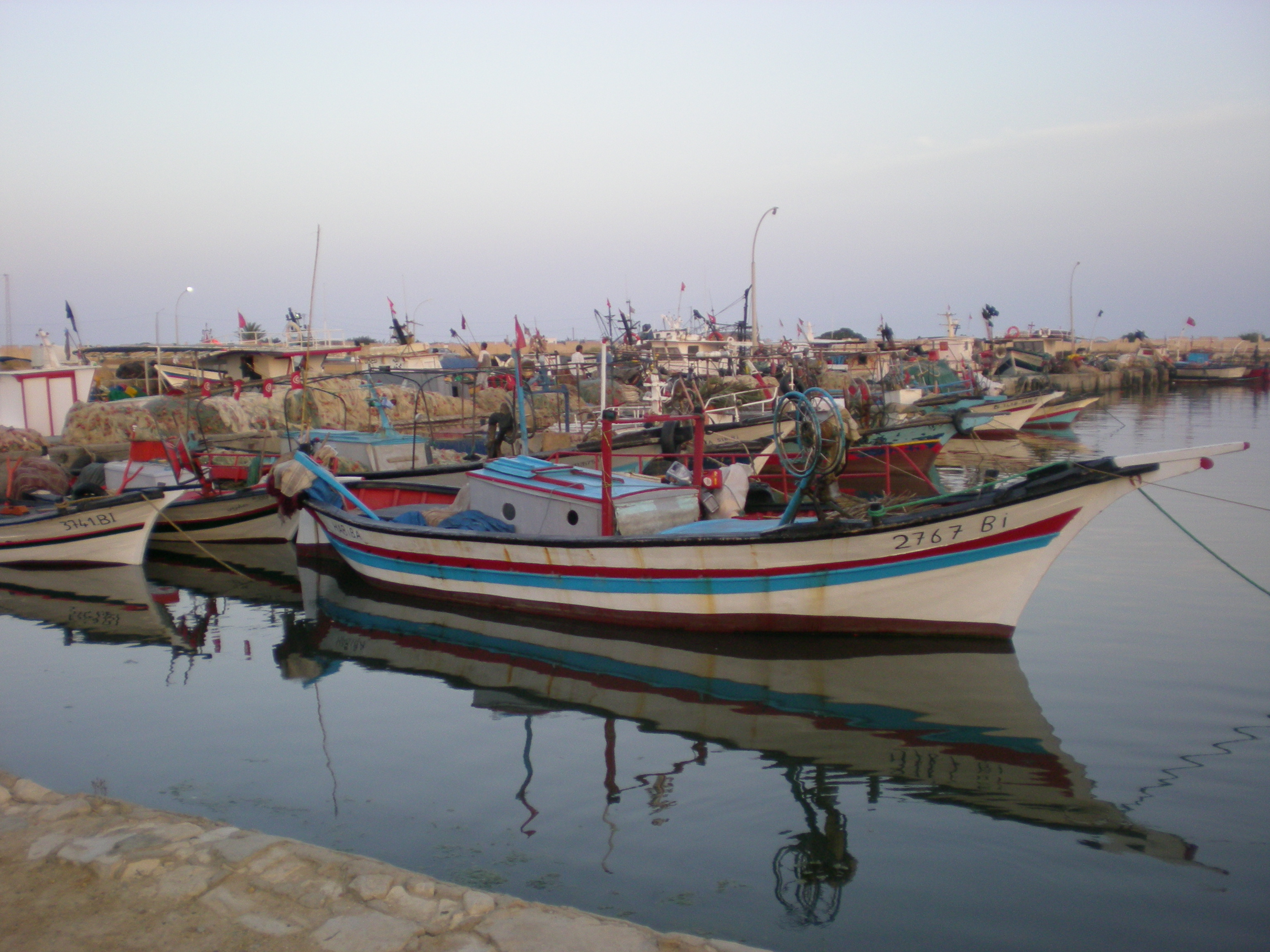 New fish harbour of Ghar El Melh, Tunisia